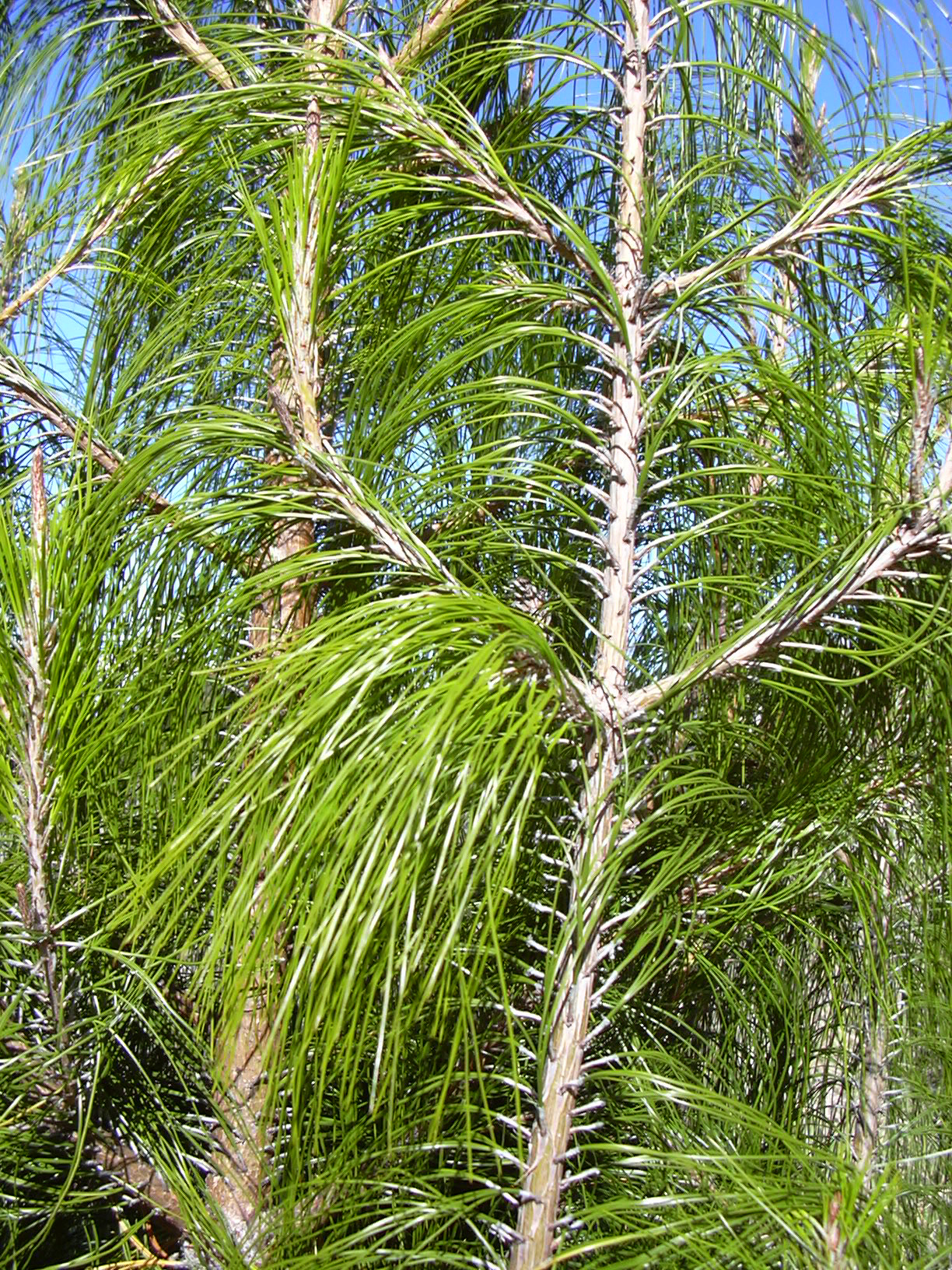 Pinus patula (leaves). Location: Maui, Puu Nianiau